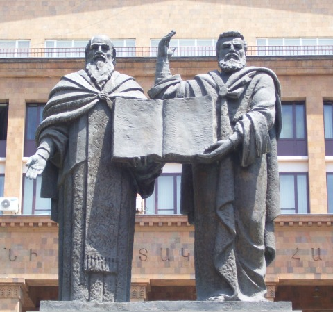 Sahak Partev and Mesrop Mashtots statues in Yerevan